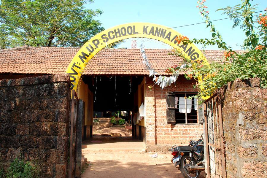 GMUP School Kannamangalam, Achanambalam